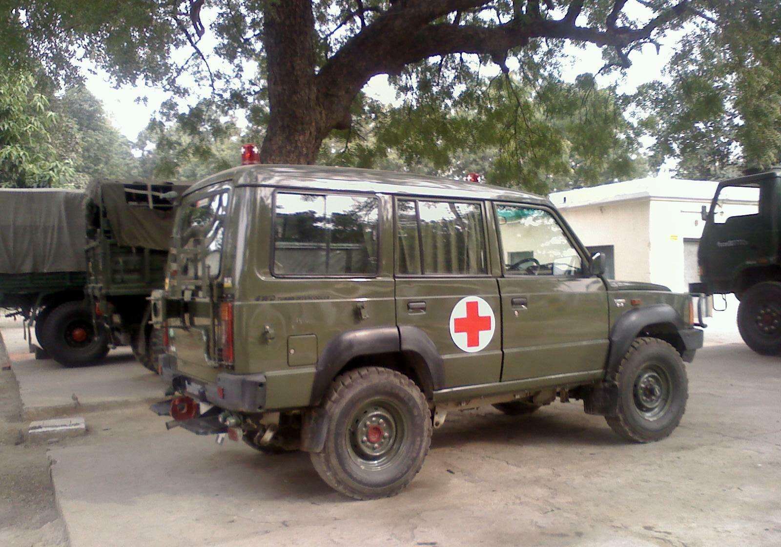 Indian Army` Light Ambulance TATA Sumo 4X4.